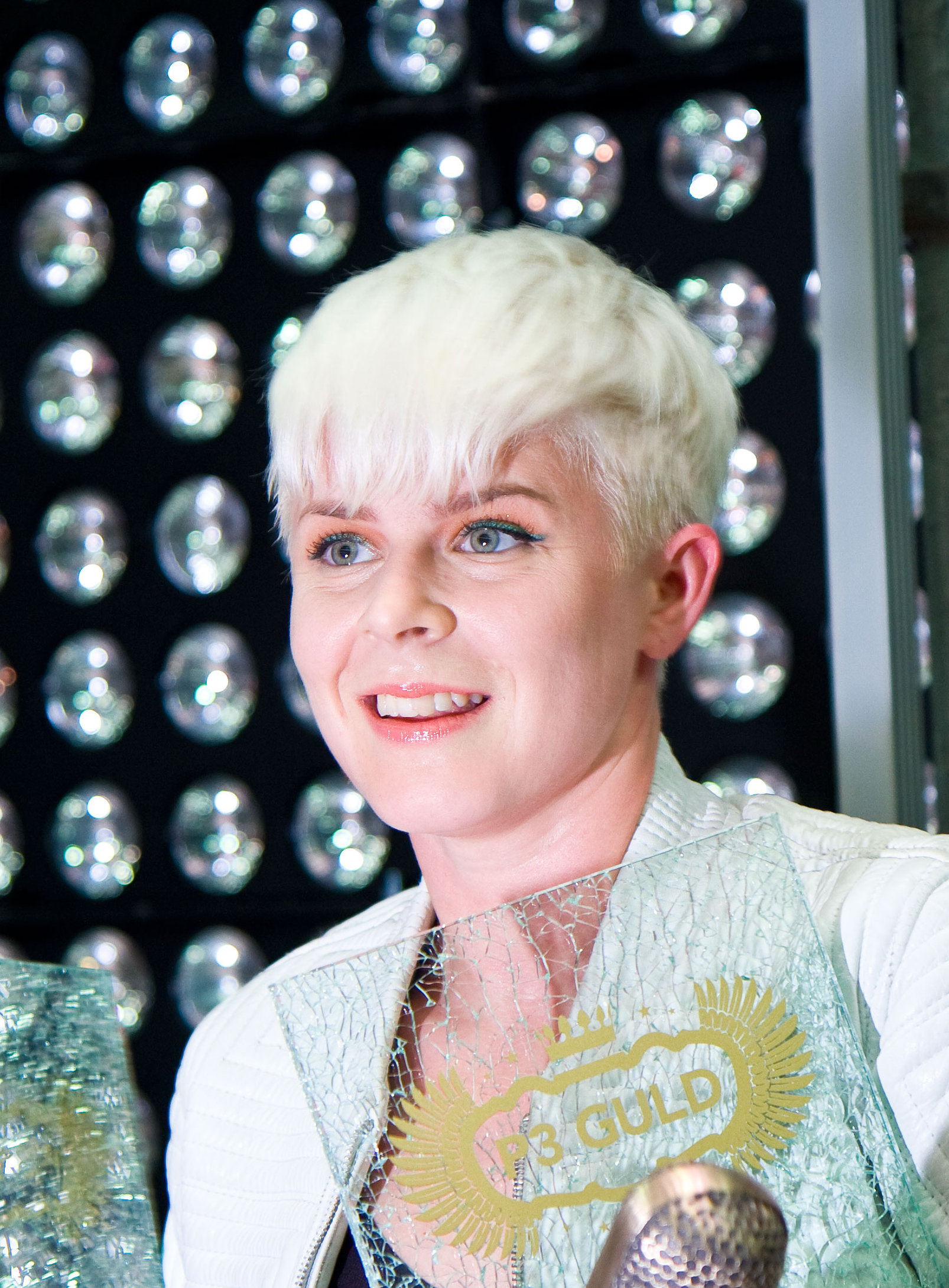 Robyn